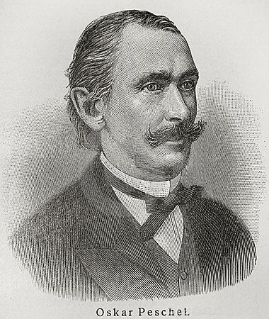 Portrait of Oscar Ferdinand Peschel (1826-1875), German geographer, writer and editor